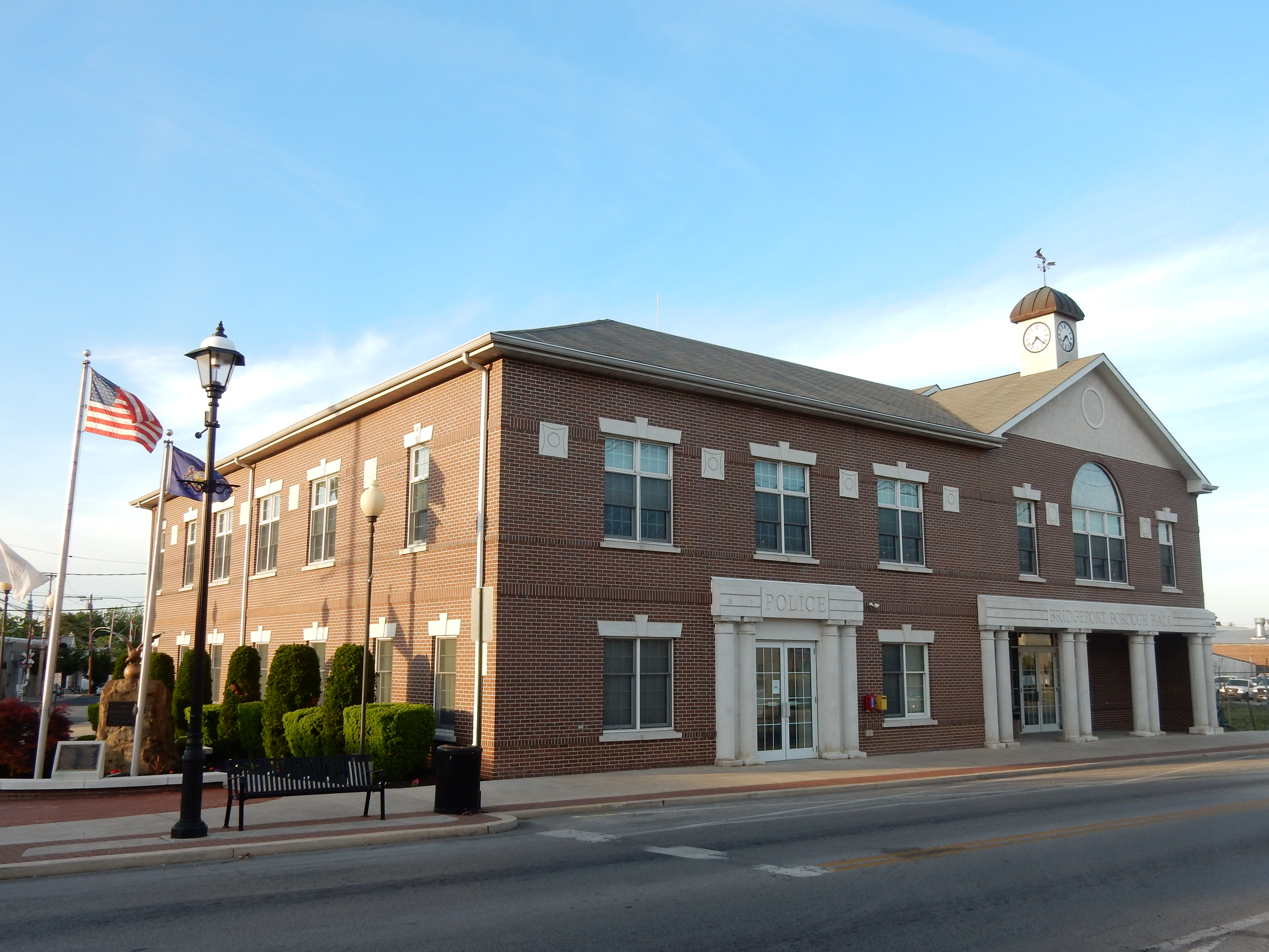 Bridgeport, Pennsylvania. 65 W 4th St., Borough Hall and Police Department.